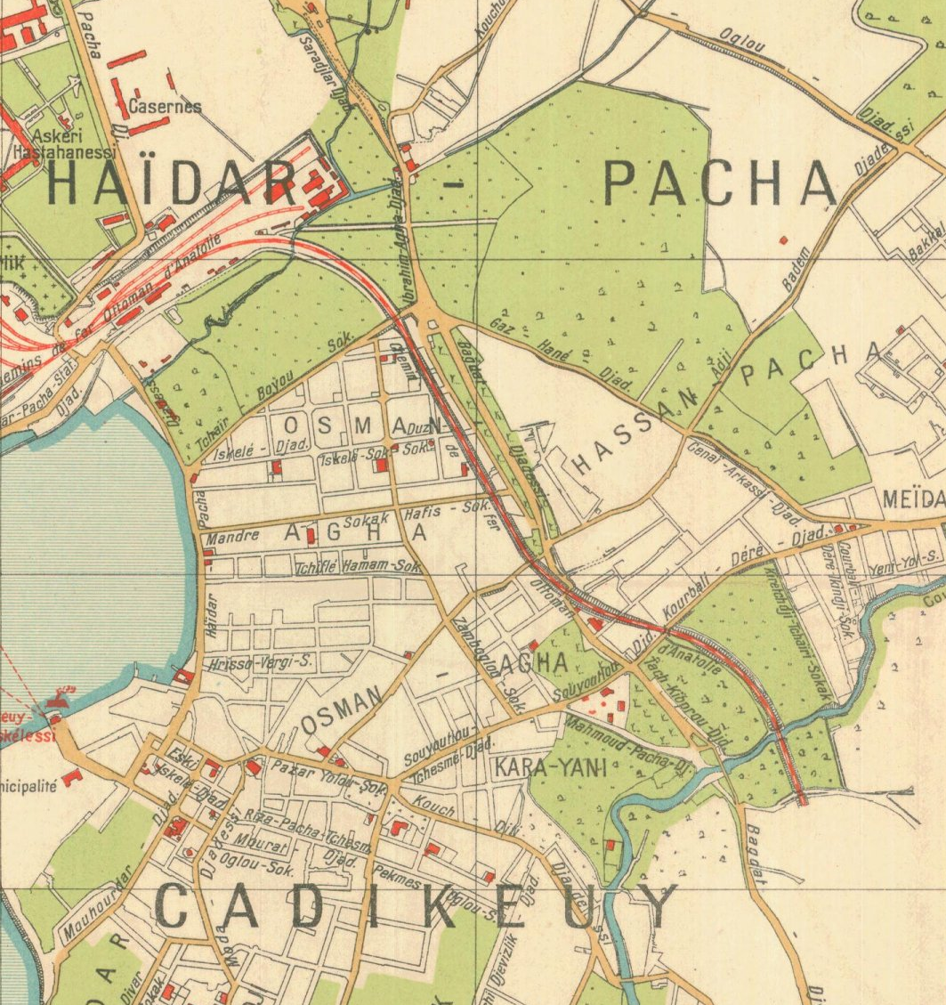 Detail of File:Istanbul PU946.jpg, showing the Bağdat Caddesi in 1922.